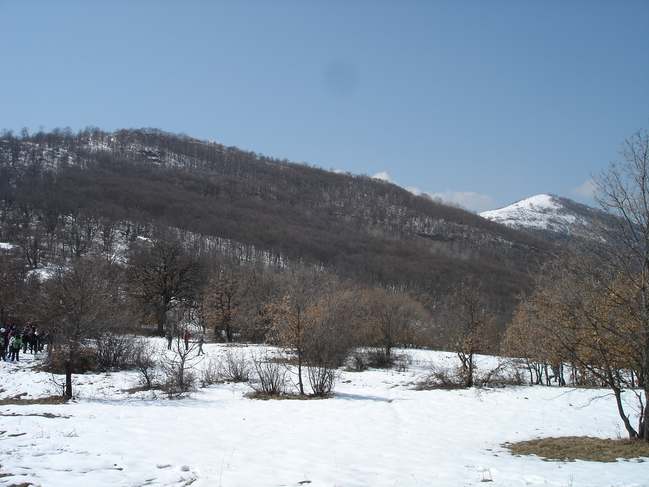 Dautica mountain, Macedonia